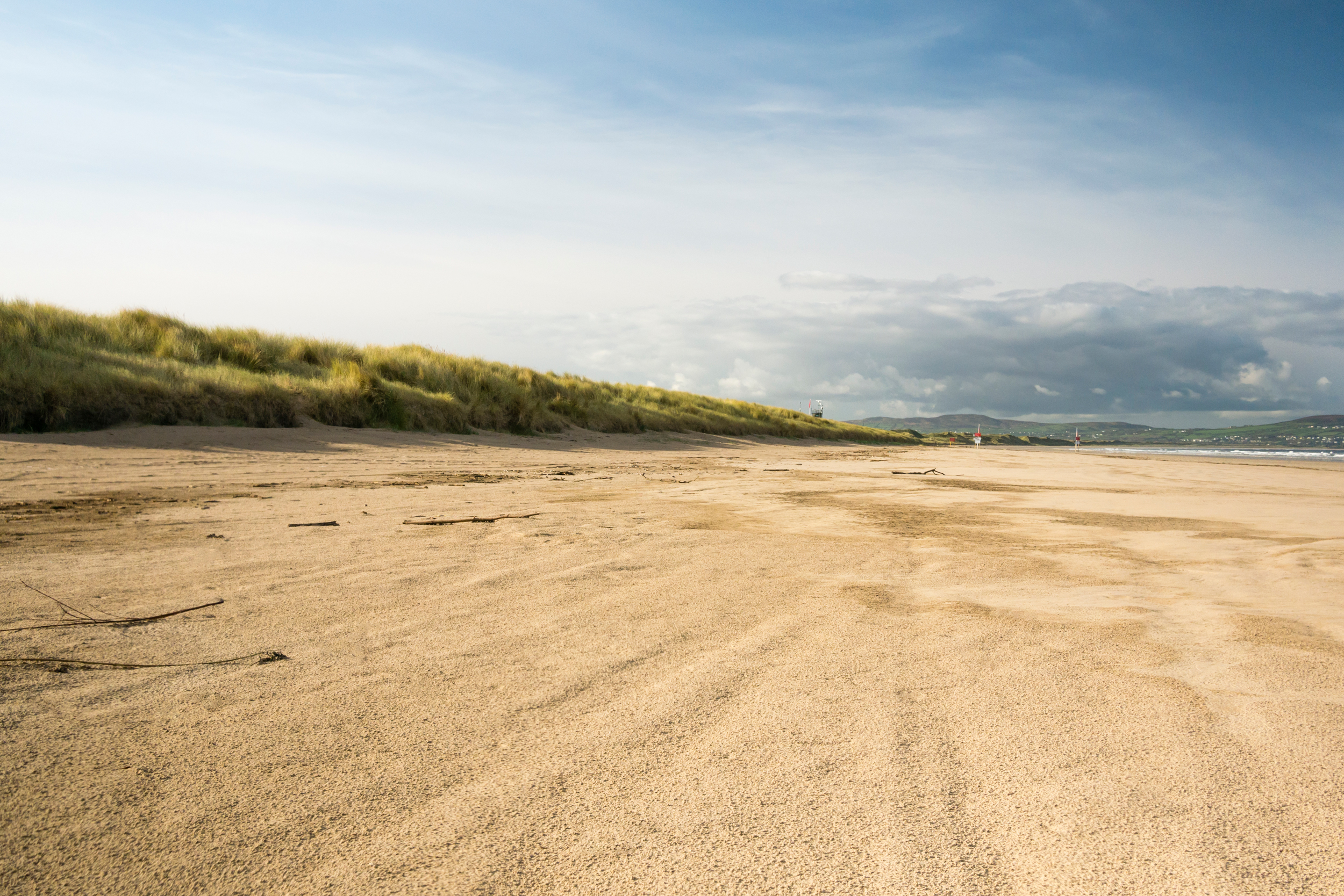 Benone Strand, Northern Ireland